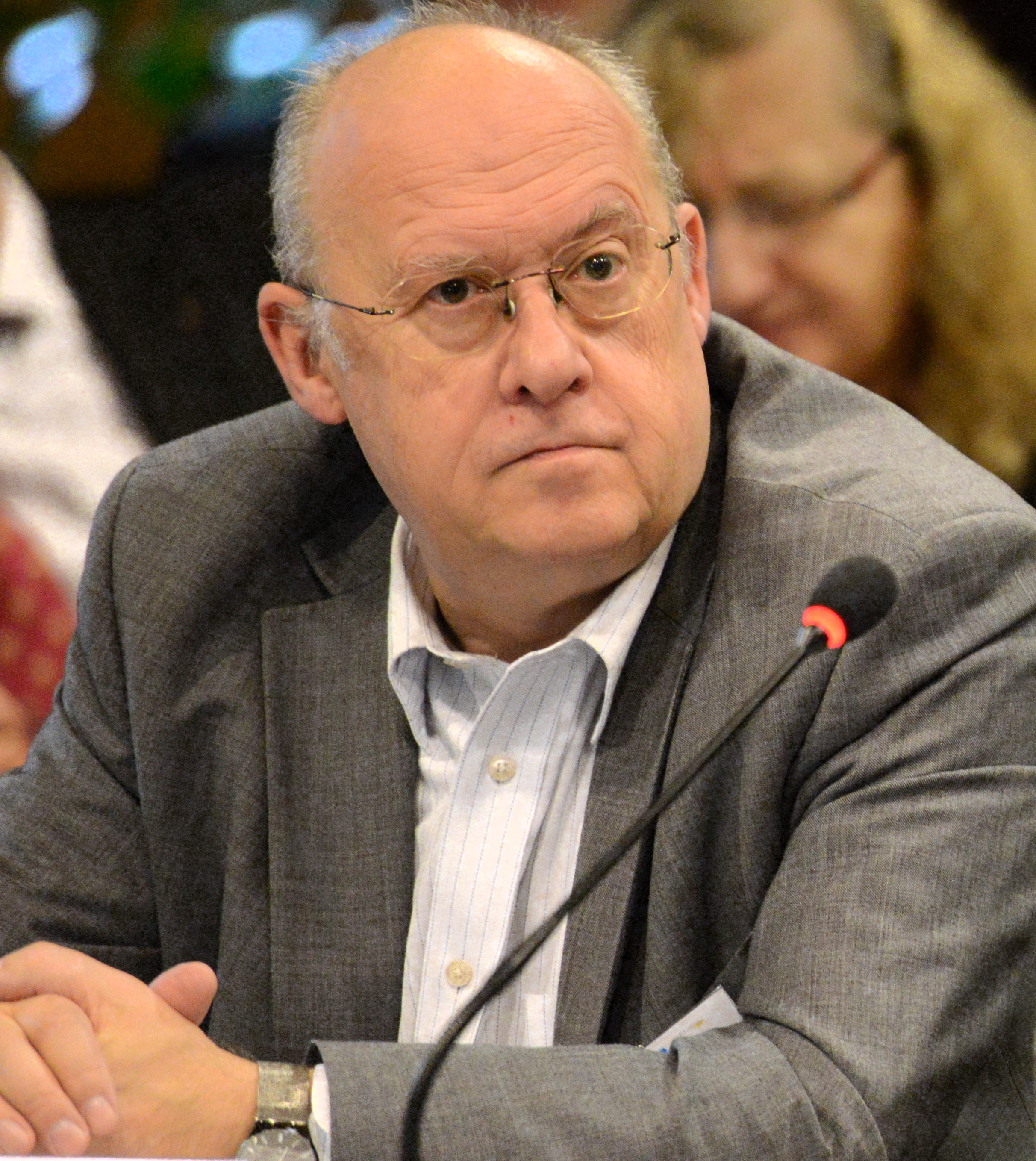 The Luxembourg Institute for European and International Studies, together with the Russkiy Mir Foundation, the Russian Centre of Science and Culture in Luxembourg and the Alexander Gorchakov Public Diplomacy Fund organized the conference Russia and the EU: the question of trust, Luxembourg, 28 - 29 November 2014. Jan Kavan, Former Foreign Minister of the Czech Republic; Former Chairman of the UN General Assembly.